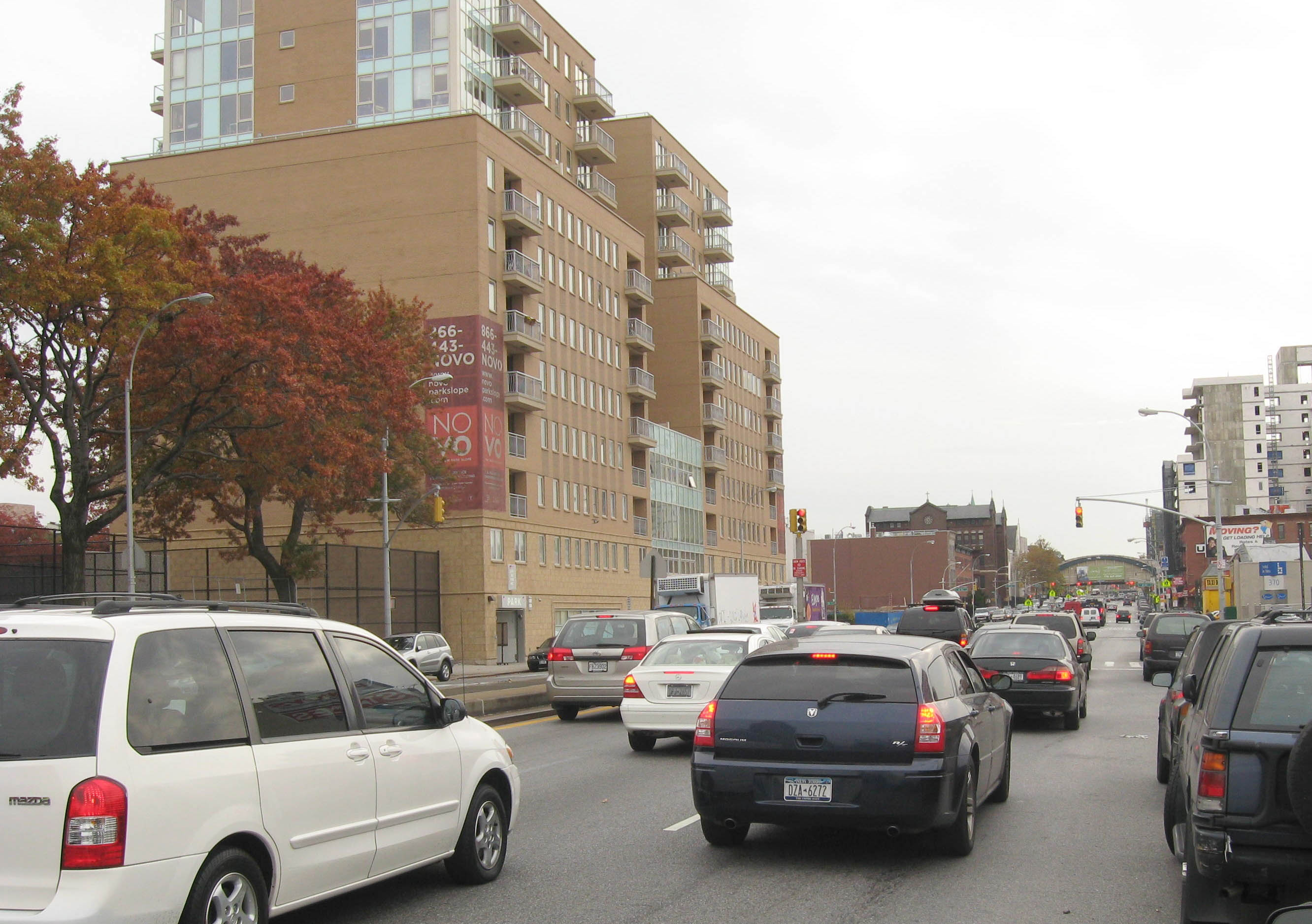 Looking south on Fourth Avenue (Brooklyn) towards 4th Street and, in the distance, the 9th Street IND Culver Line station.